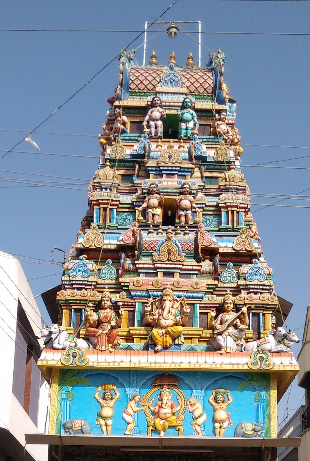 Jagannatha pillayartemple near mahamaham tank மகாமகக்குளத்தருகேயுள்ள ஜெகந்நாதப்பிள்ளையார் கோயில்